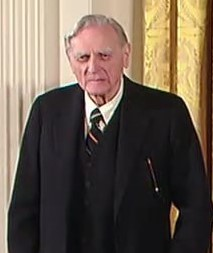 Cropped screen cap of John B. Goodenough at the 2011 National Medal of Science and National Medal of Technology award ceremony